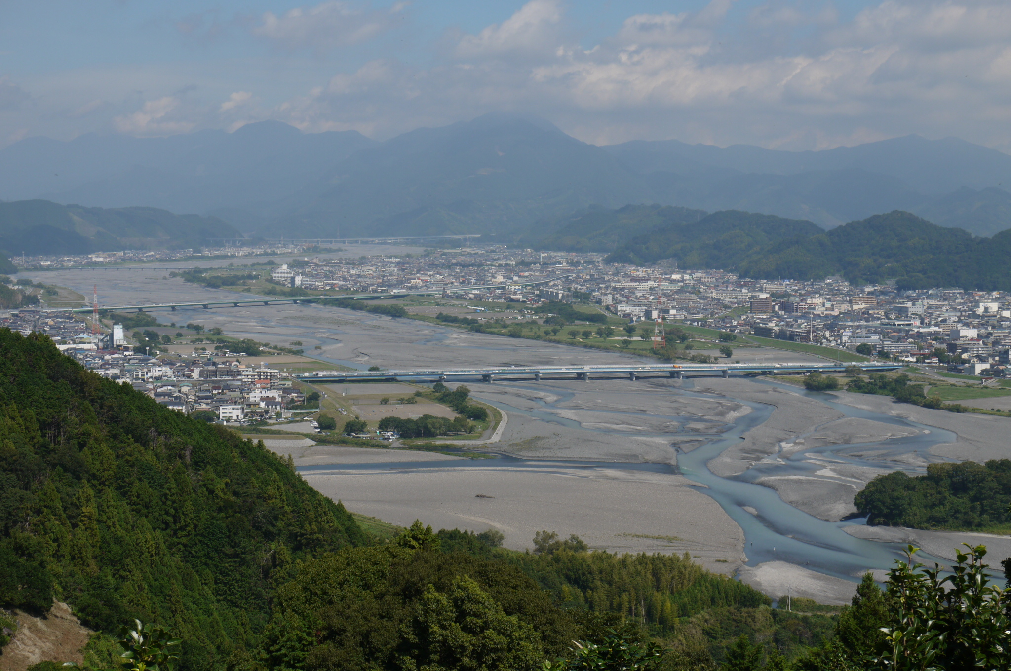 Abe River in Shizuoka, Shizuoka Prefecture. Looking NNE.